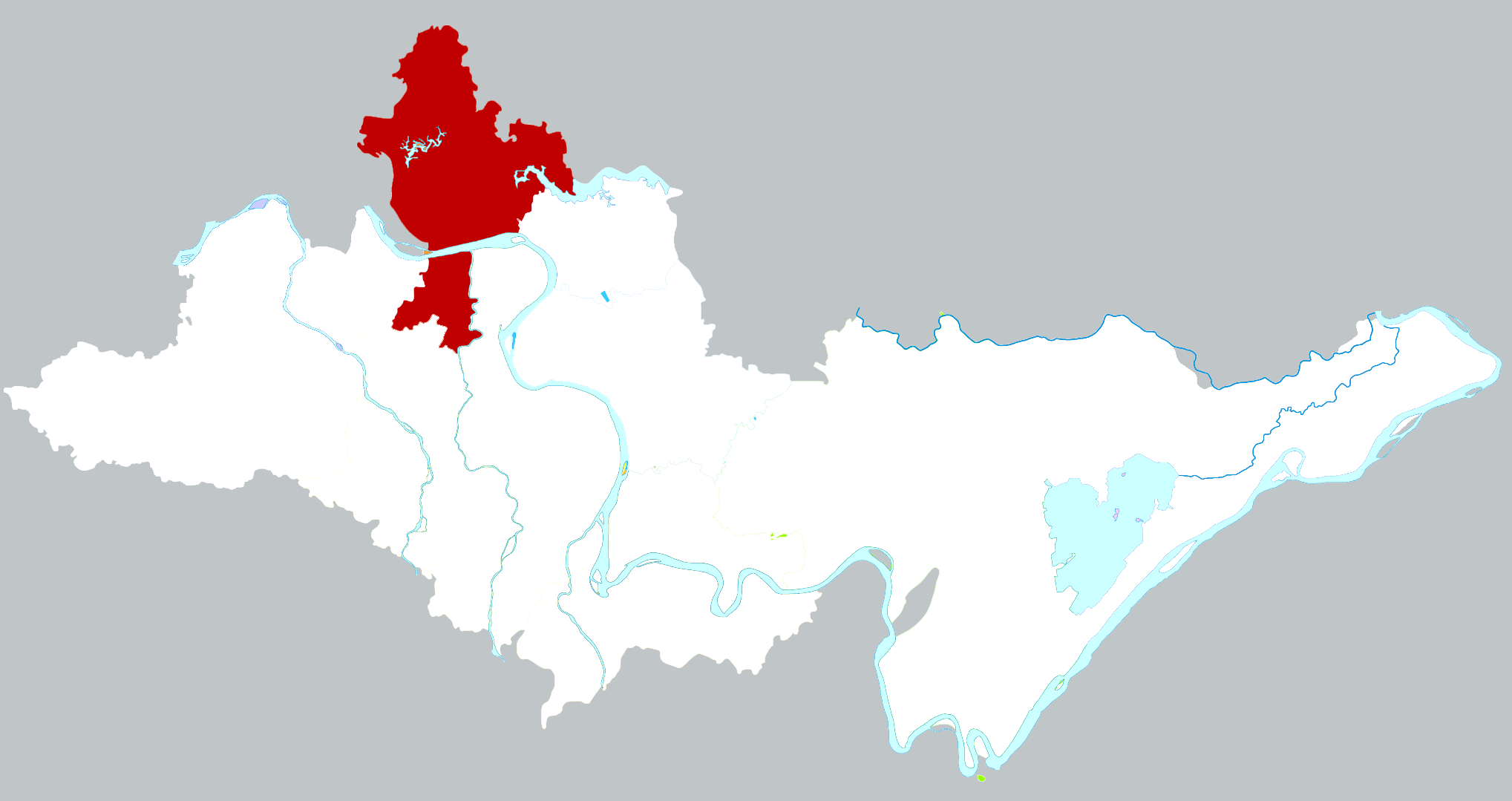 Location of Jingzhou district in Jingzhou city, China